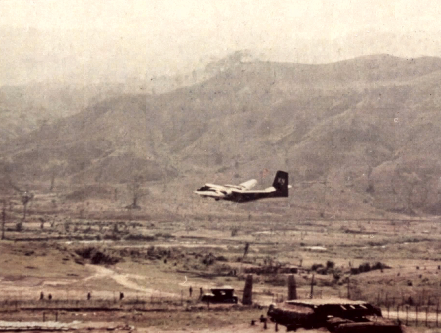 A C7A Caribou aircraft flies above the destruction of a team house, trucks and other structures caused by an NVA sapper attack against the Dak Pek Special Forces Camp.